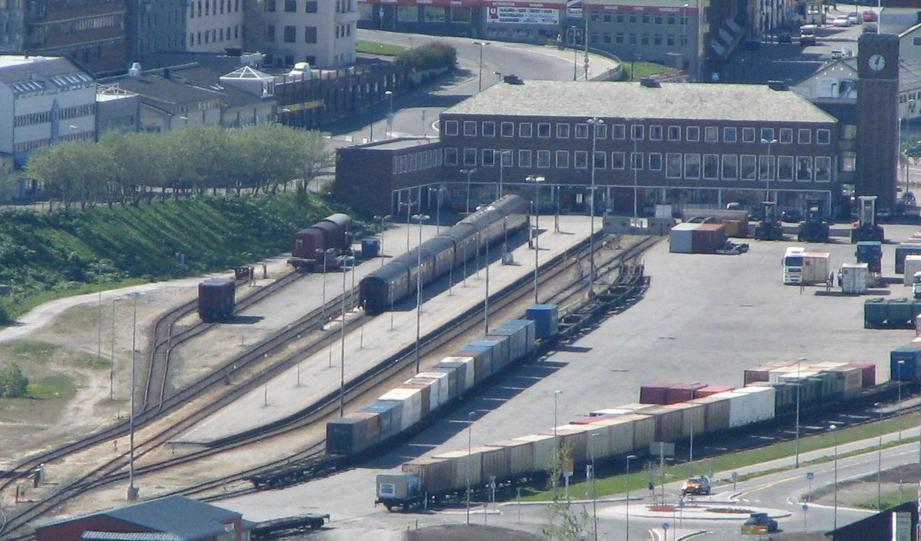 Bodø stasjon on Nordlandsbanen, Norway